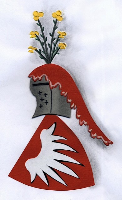 Coat of Arms of the Breberienses